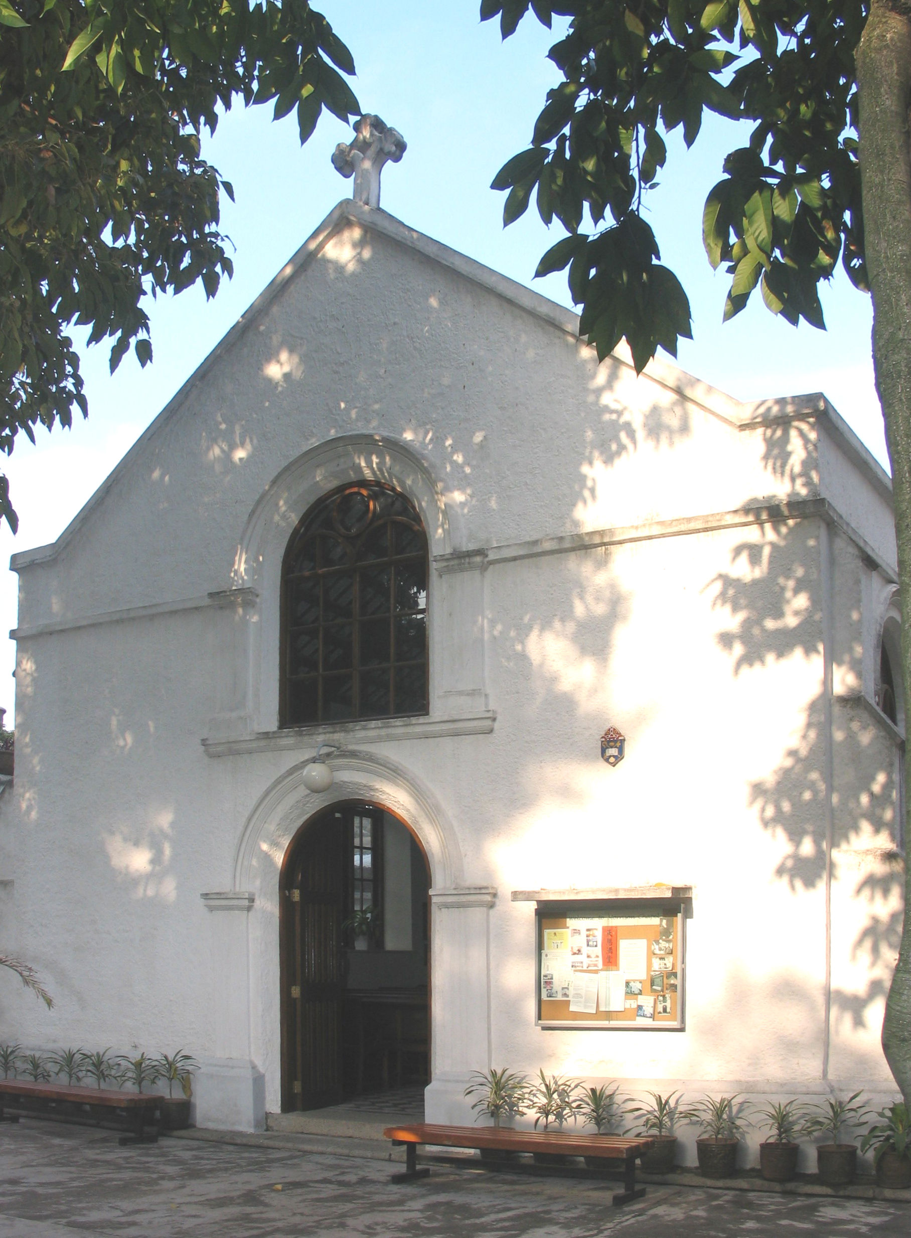 Morrison Chapel --- located in the Protestant Cemetary of Macao 馬禮遜堂，位於澳門基督教墳場外 Photo taken by Glio